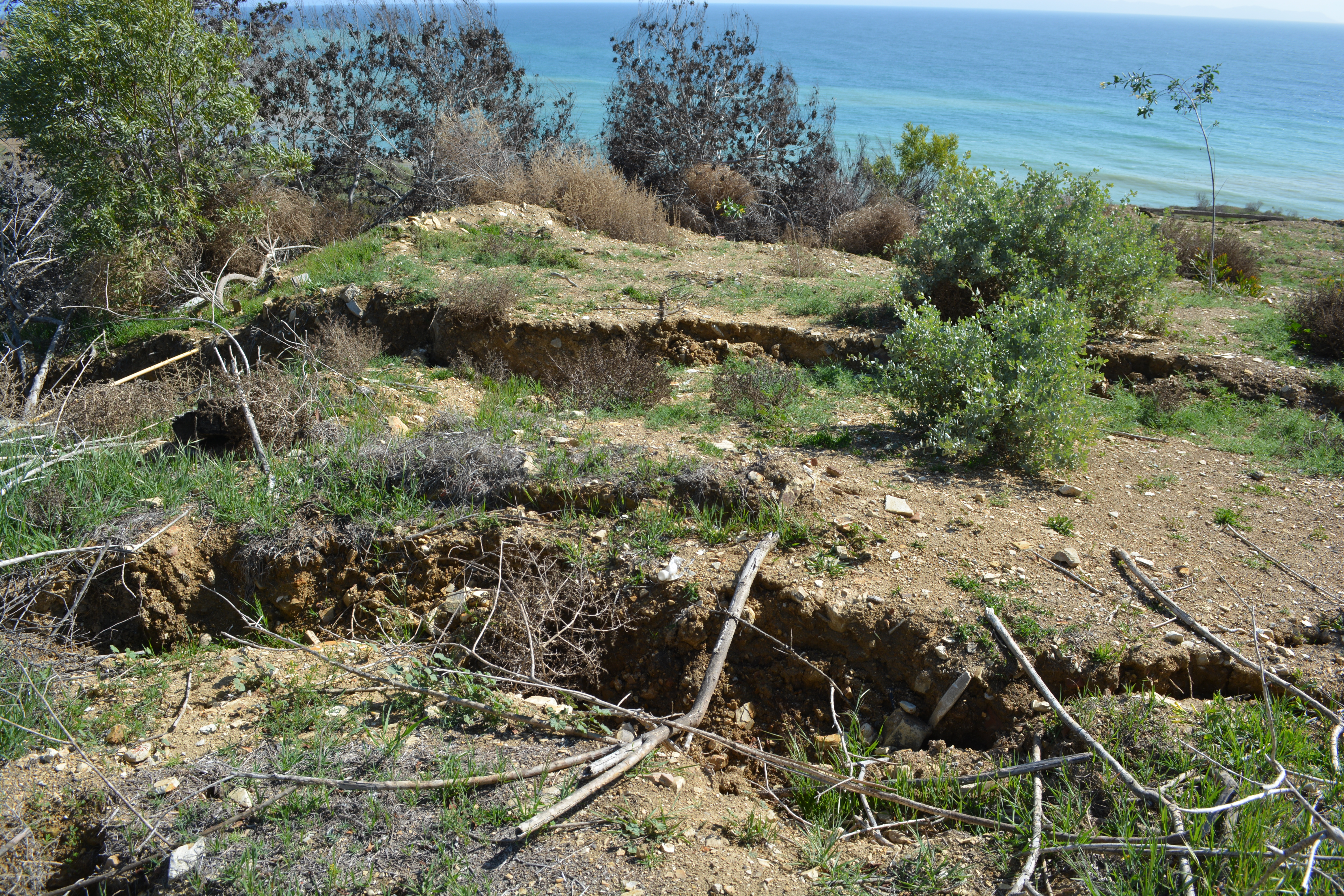 Large rifts, caused by rapidly moving, unstable ground, can be seen in the Portuguese Bend Landslide area, Palos Verdes Peninsula, California, USA